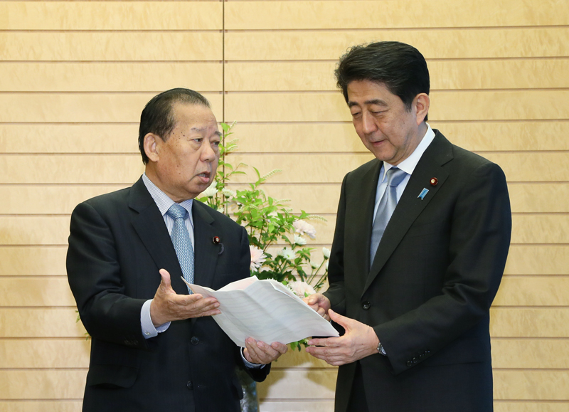 Toshihiro Nikai of the Liberal Democratic Party and Japanese Prime Minister Shinzō Abe.